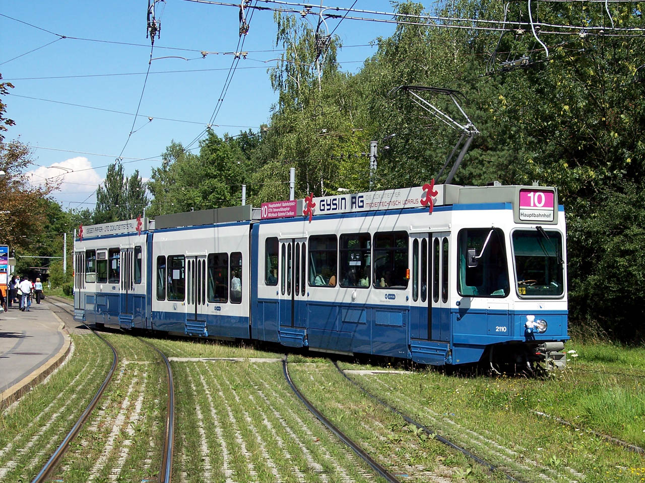 Trams in Zürich: A Be 4/8 "Sänfte" on route 10 at Milchbuck. These trams are standard Be 4/6 "Tram 2000" that have been extended with low floor centre sections.